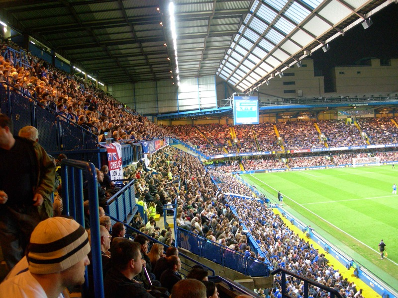 Chelsea F.C.